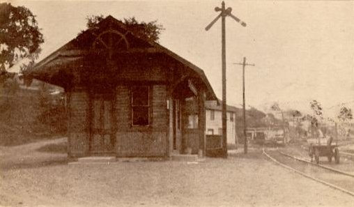 A picture of the Ulster and Delaware railroad station at Halcotville, New York, 1902.